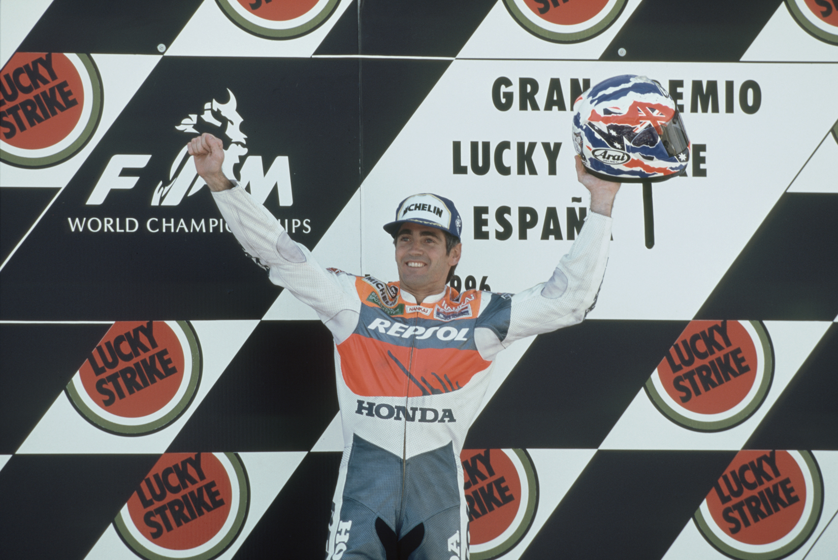 Mick Doohan, celebrating on the podium after winning the 1996 Spanish Grand Prix.